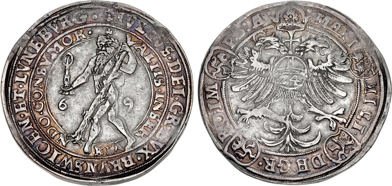 GERMANY, Braunschweig-Wolfenbüttel (Herzogtum). Julius. 1568-1589. AR Lichttaler zu 24 Groschen 1569 (42mm, 28.95 g, 12h). Goslar mint. Dated 1569. Wildman advancing left, holding lamp and tree / Crowned double-headed eagle with globus cruciger on breast. Welter 575; Davenport 9057. VF, toned.